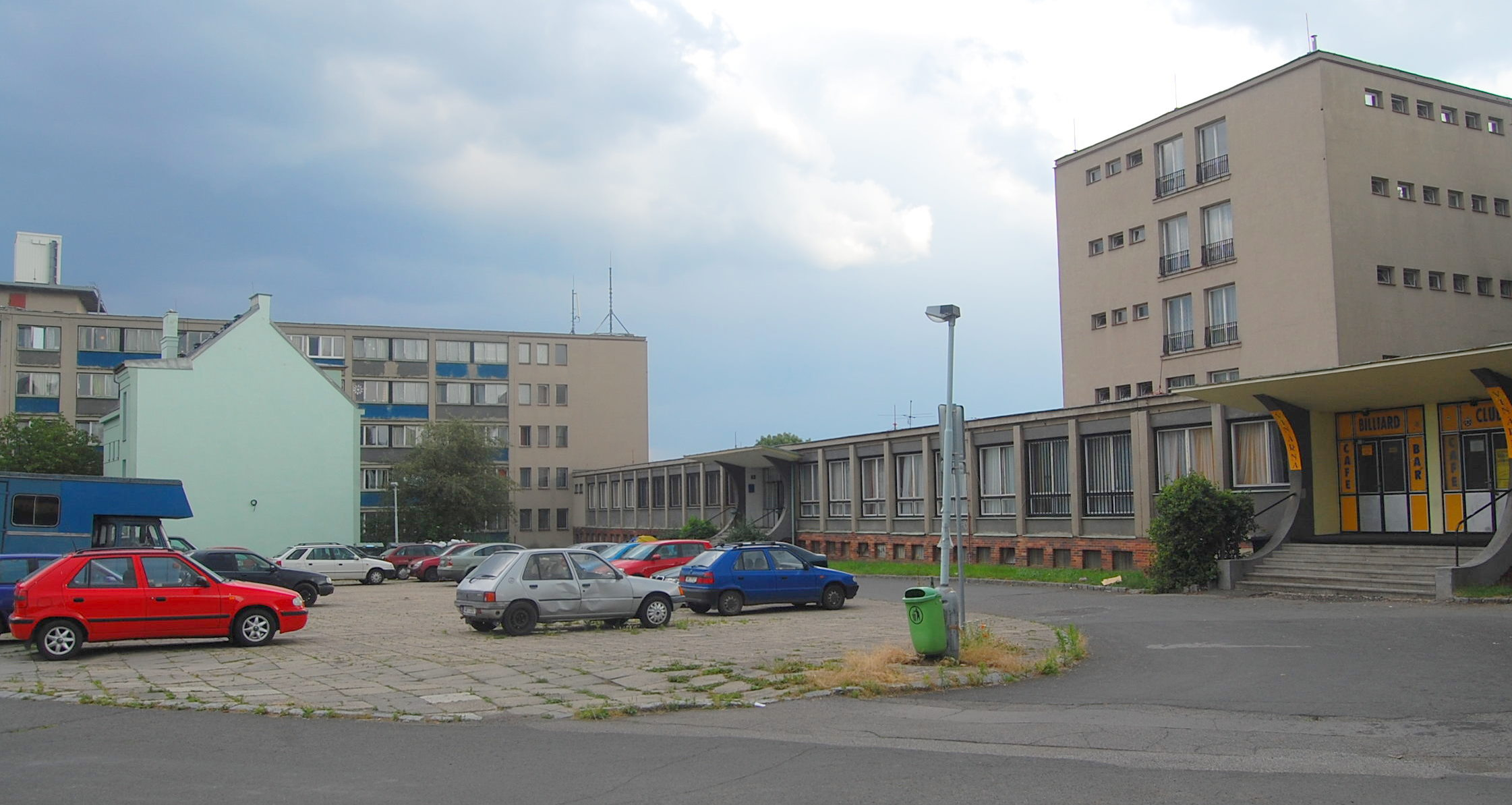 Blocks 1 and 2 of student dormitory "Na Větrníku" in Prague, Czech Republic